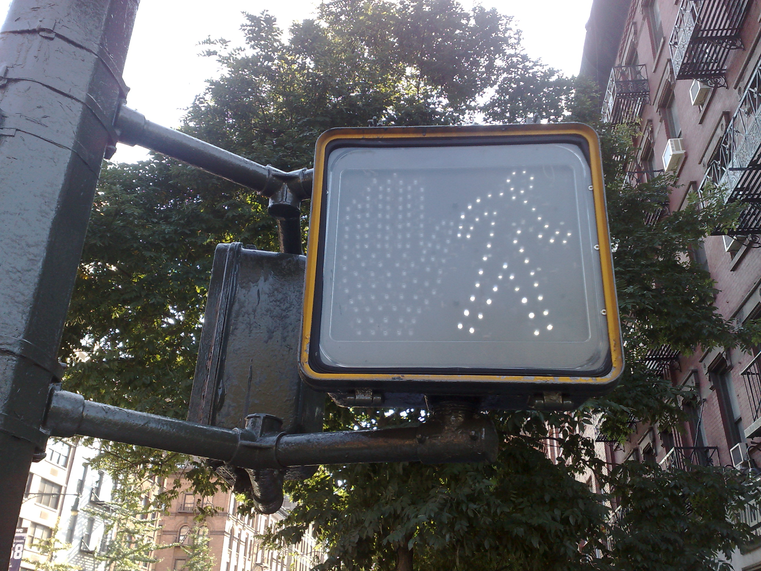 This photo is of Wikis Take Manhattan goal code S11, Pedestrian "Man" traffic signal.